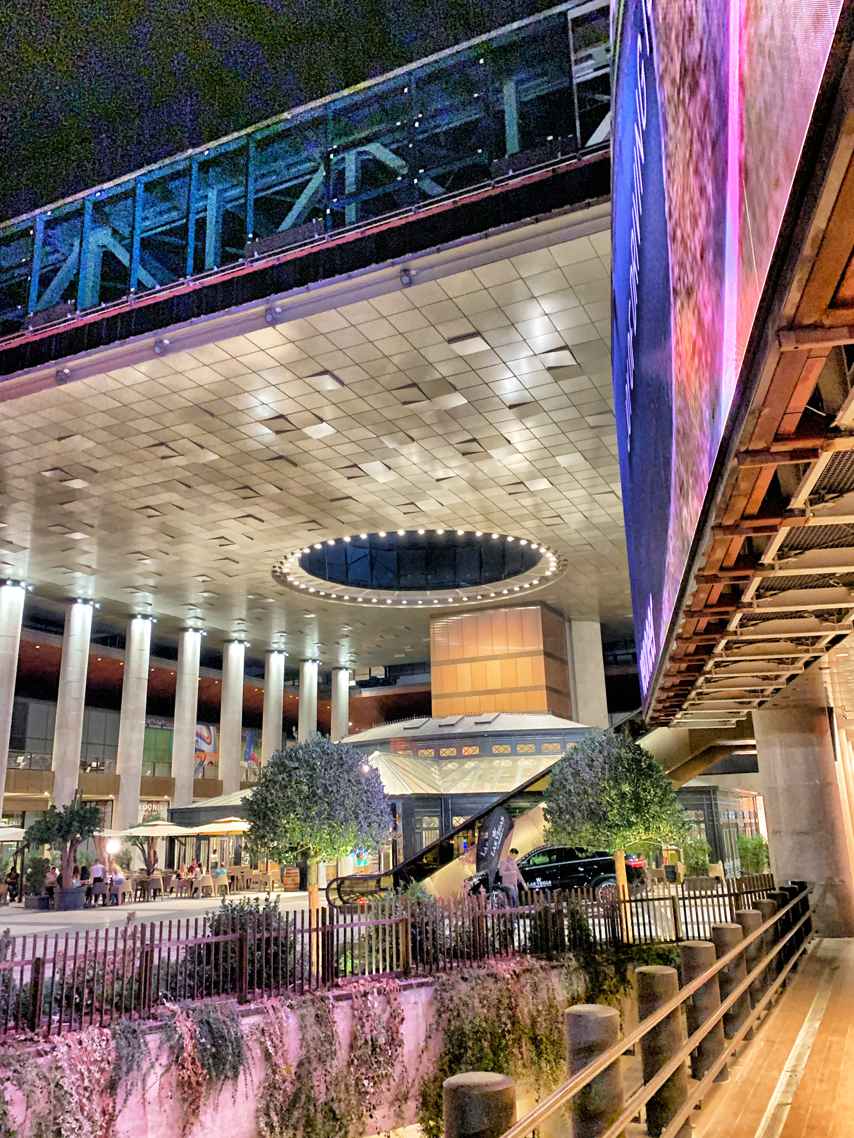 Iulius Town Timișoara at night, September 2019